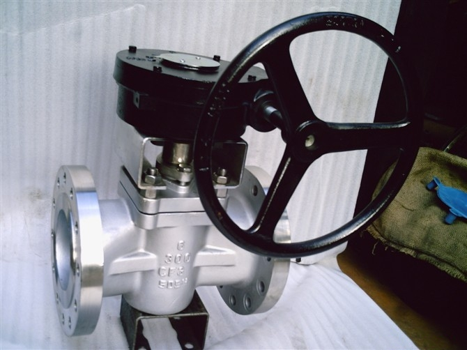 Super duplex valve. Plug valve configuration. Valves and are generally made of plastic or steel, the latter being the most widely used in chemical and petrochemical applications. Steel grades range from the most common type, namely carbon steel, with standard stainless steel being the second most common. Stainless steel alloys, which include nickel or copper are used in applications that require higher corrosion or heat resistance. In such cases, the most commonly used valve configurations -- ball valves, gate valves, check valves, globe valves and butterfly valves -- are often forged or cast as duplex valves, super duplex valves, alloy 20 valves, monel valves, inconel valves, incoloy valves and 254 SMO valves (6Mo valves). Titanium valves are also used in some highly corrosive applications. Titanium is not a stainless steel alloy.